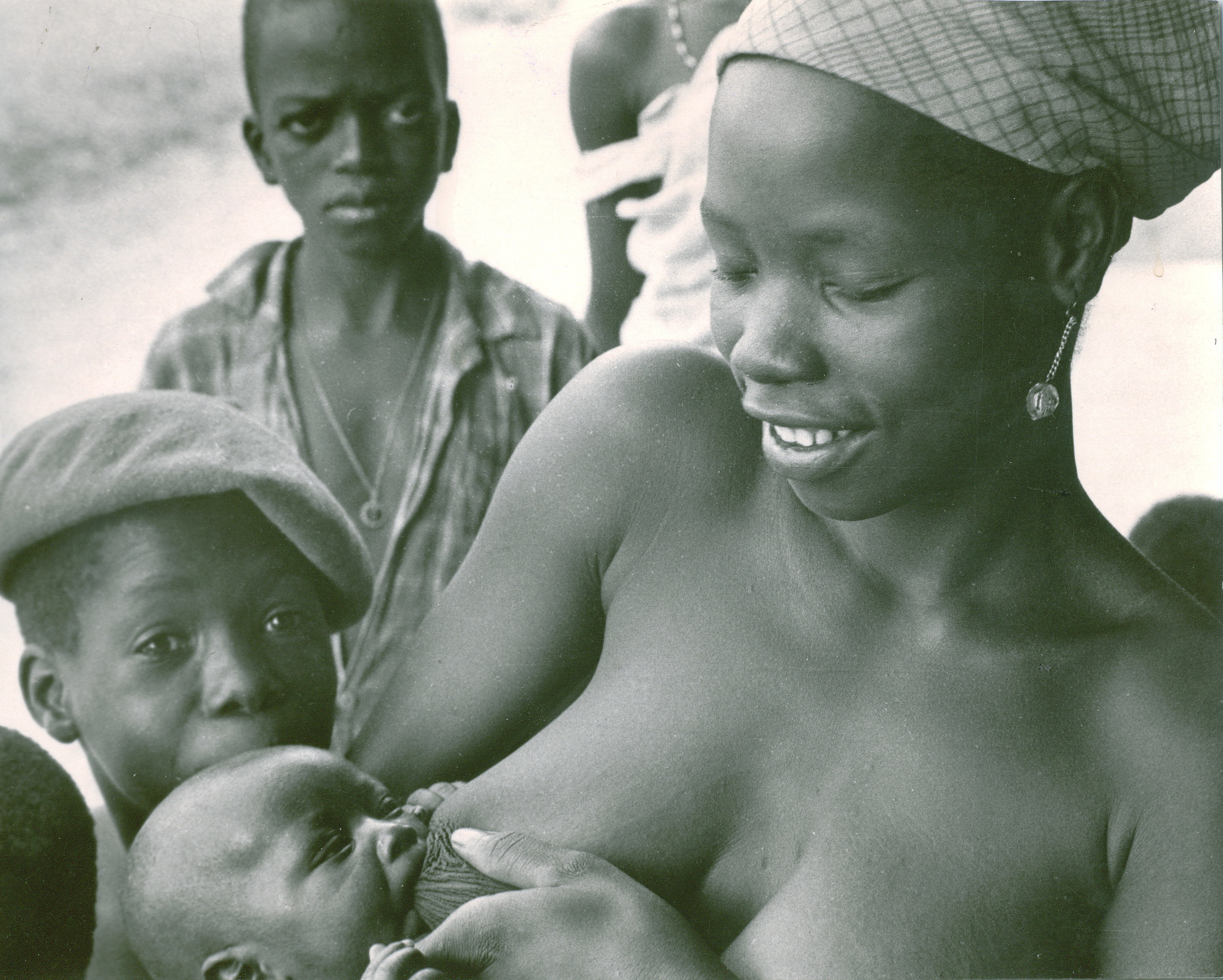 Photo taken in 1967 or 1968. The mother was one of the children of my next-door neighbors in Kabala. As is customary there, she had come home to stay with her parents for an extended period during her pregnancy and while her child was still an infant. She asked me to take a few pictures of her child and get prints for her next time I was in Freetown (which I did).